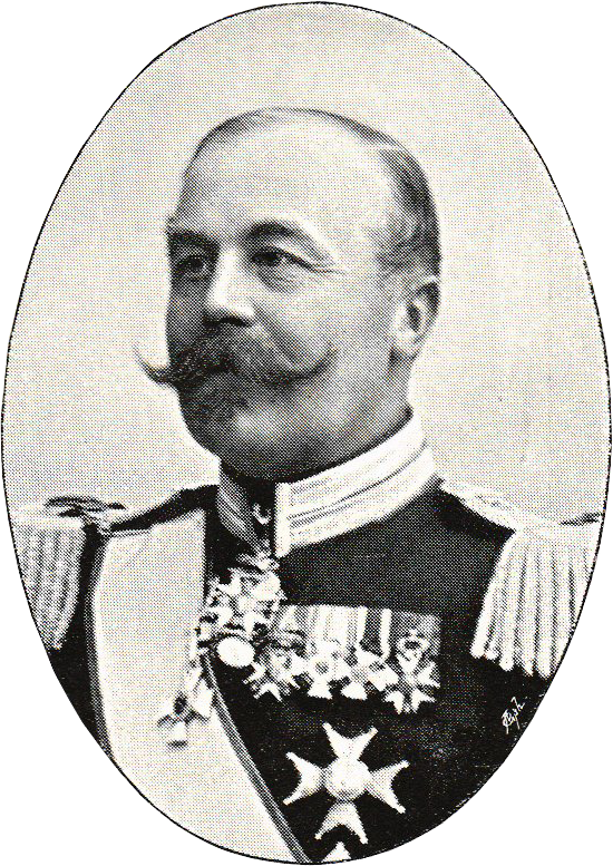 Hemming Gadd (1837-1915), Swedish general.